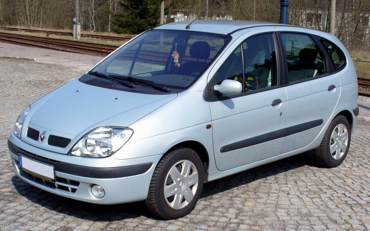 Renault Scénic I Phase II